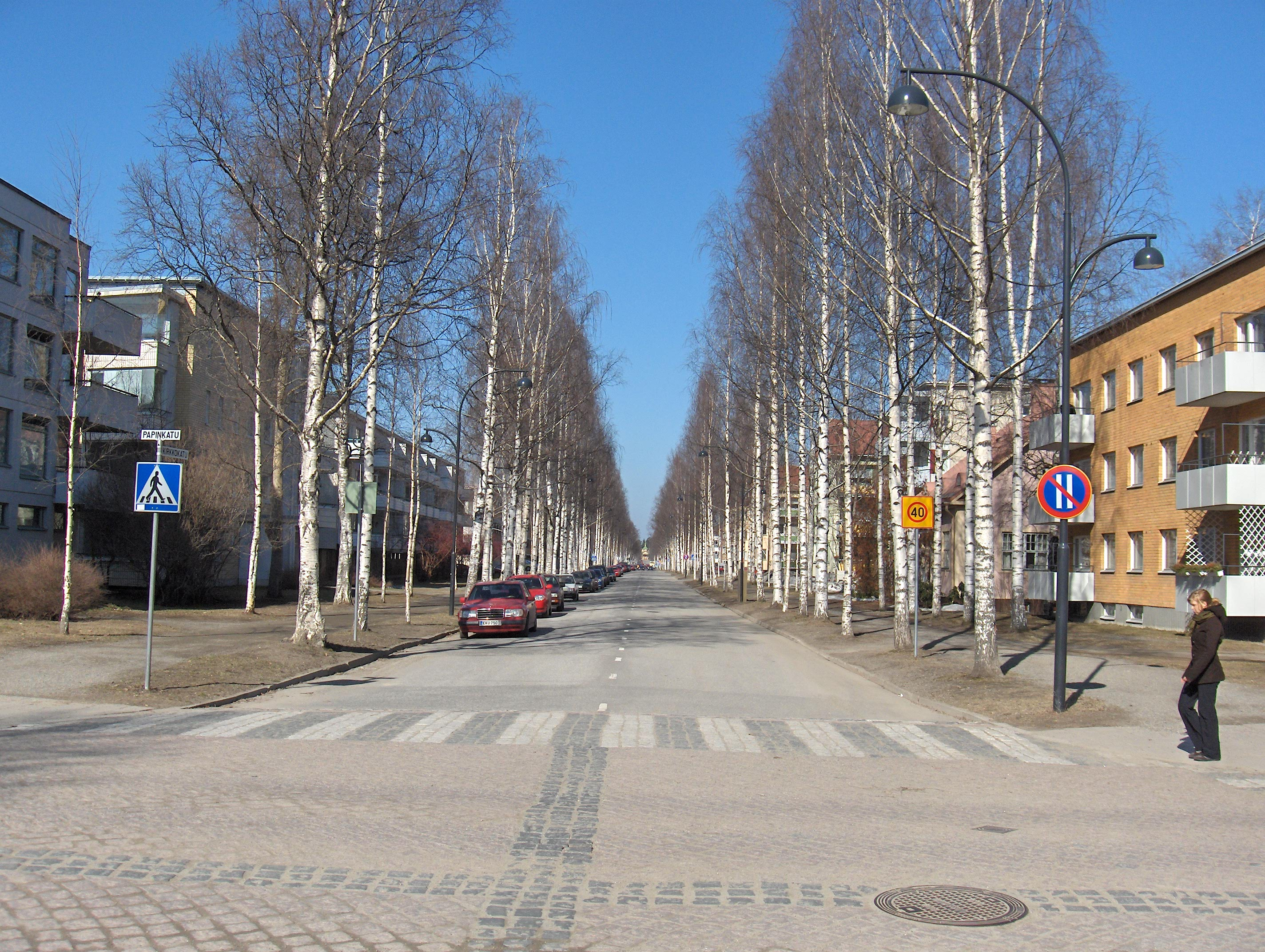 The intersection of Kirkkokatu (Church street) and Papinkatu (Priest street) in Joensuu, Finland